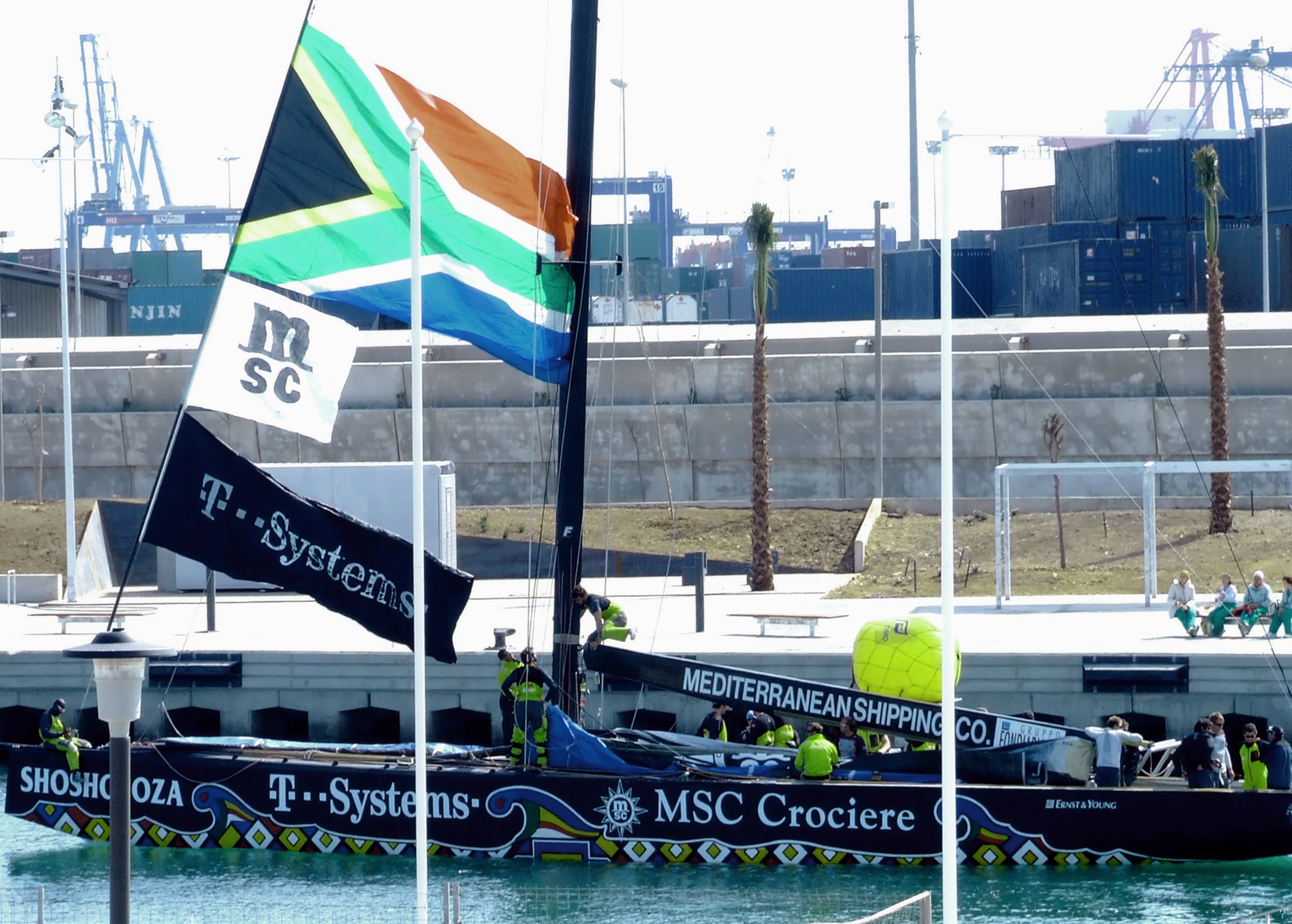 sailing race boat "Shosholoza" at Valencia port/spain for daily training and improvement.